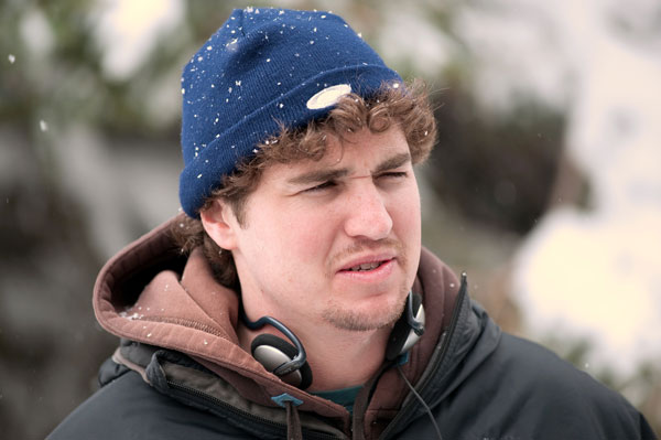 Filmmaker Jeff Kopas on set of his first feature film An Insignificant Harvey